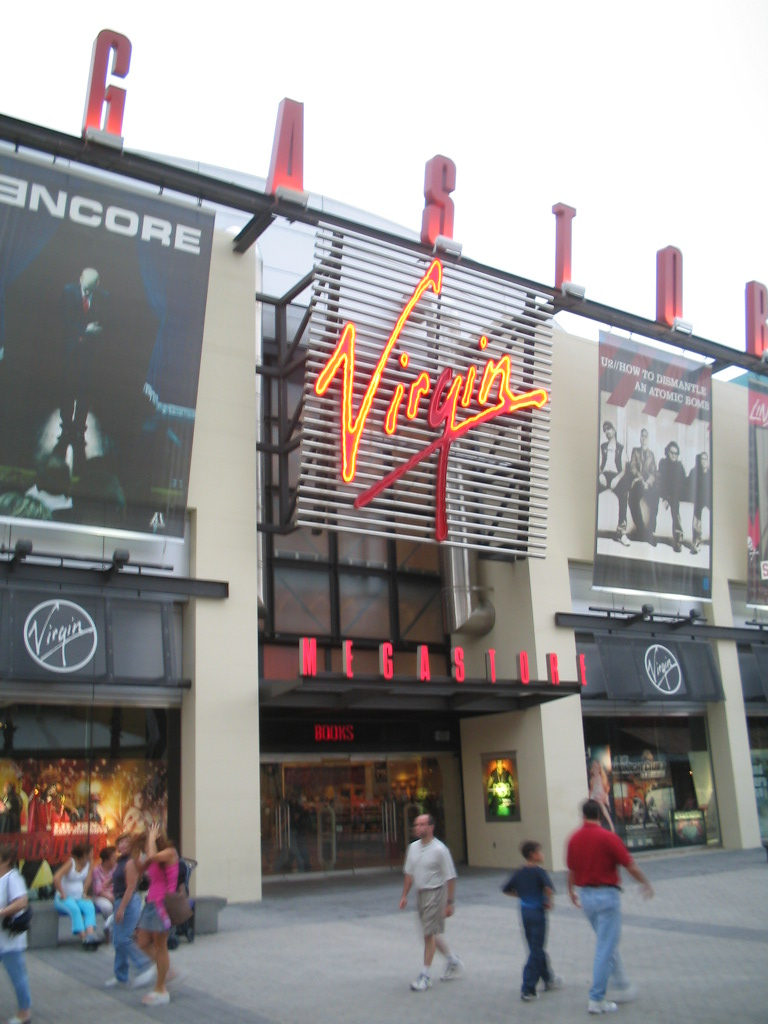 Virgin Megastore, Walt Disney World, Orlando